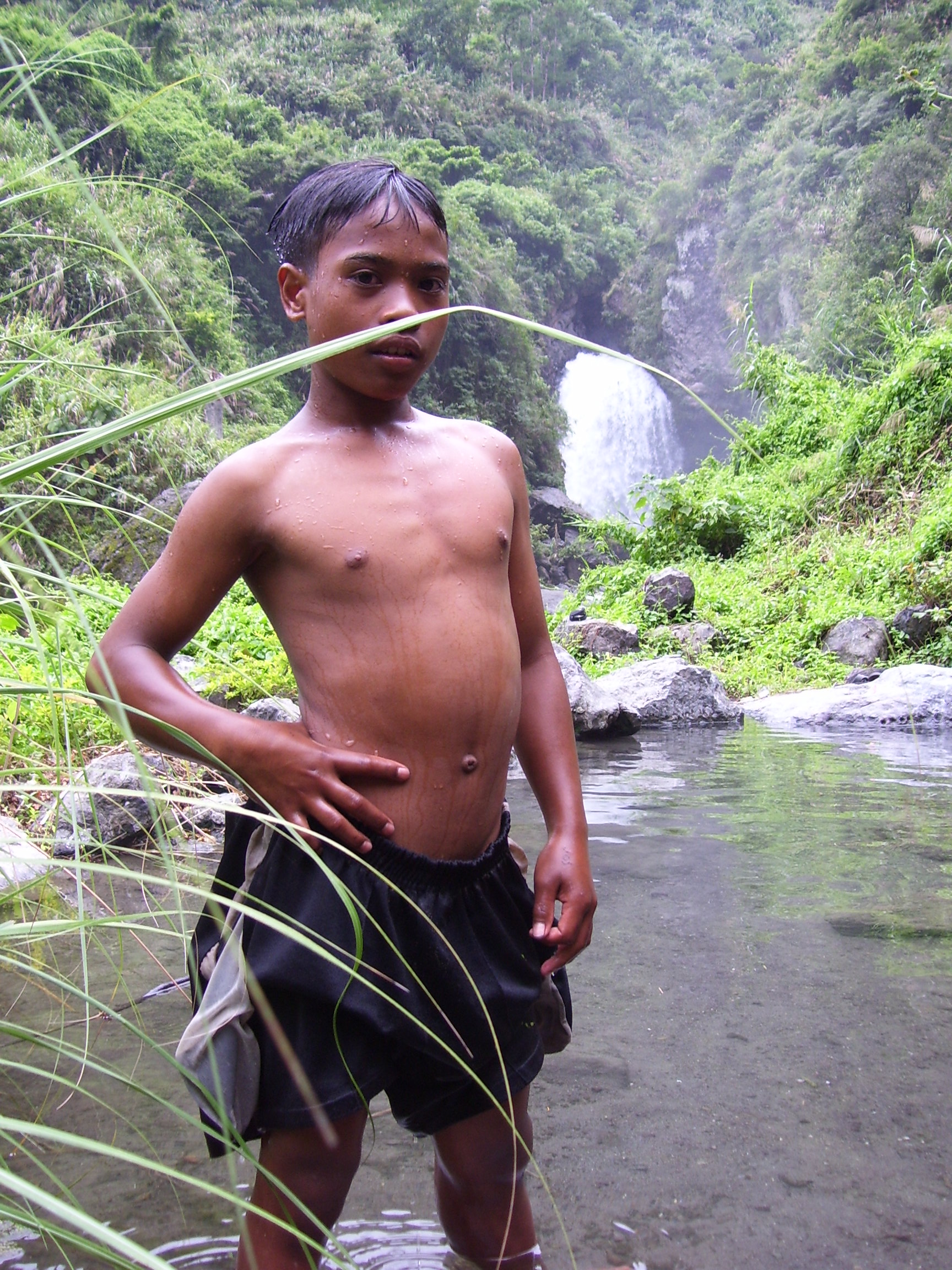 Bunog Falls and Hot Springs below Tulgao village